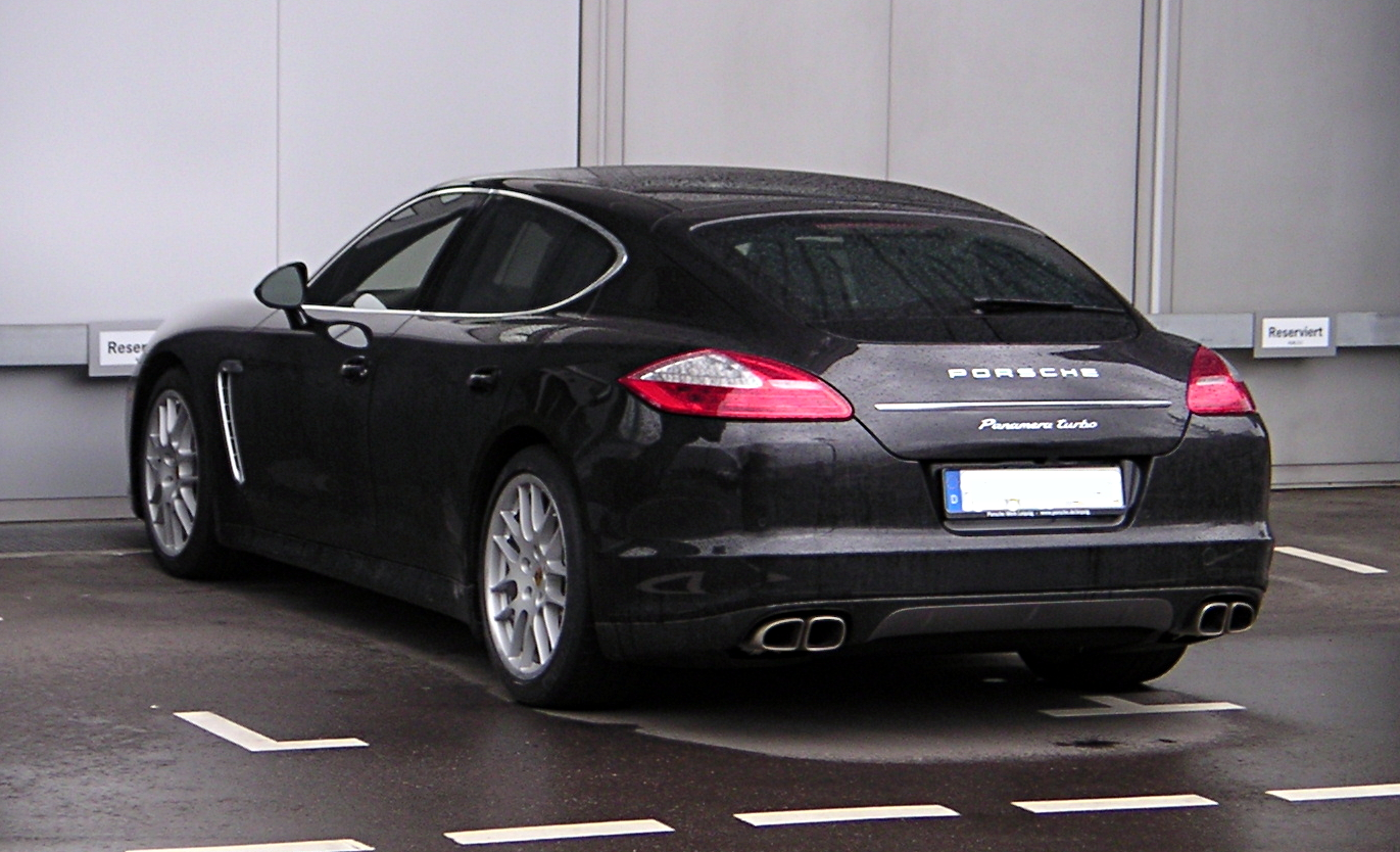 At the Picture you can see the rear of the new Porsche Panamera Turbo. It was photographed at the Porsche factory in Zuffenhausen near Stuttgart.